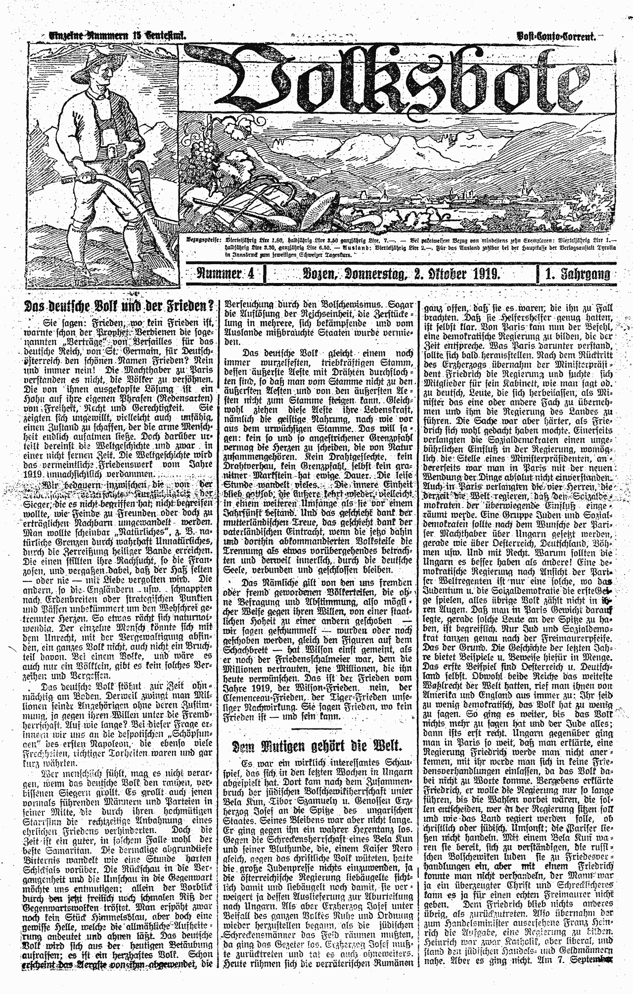 Volksbote newspaper from Oct 2 1919 Nr 4